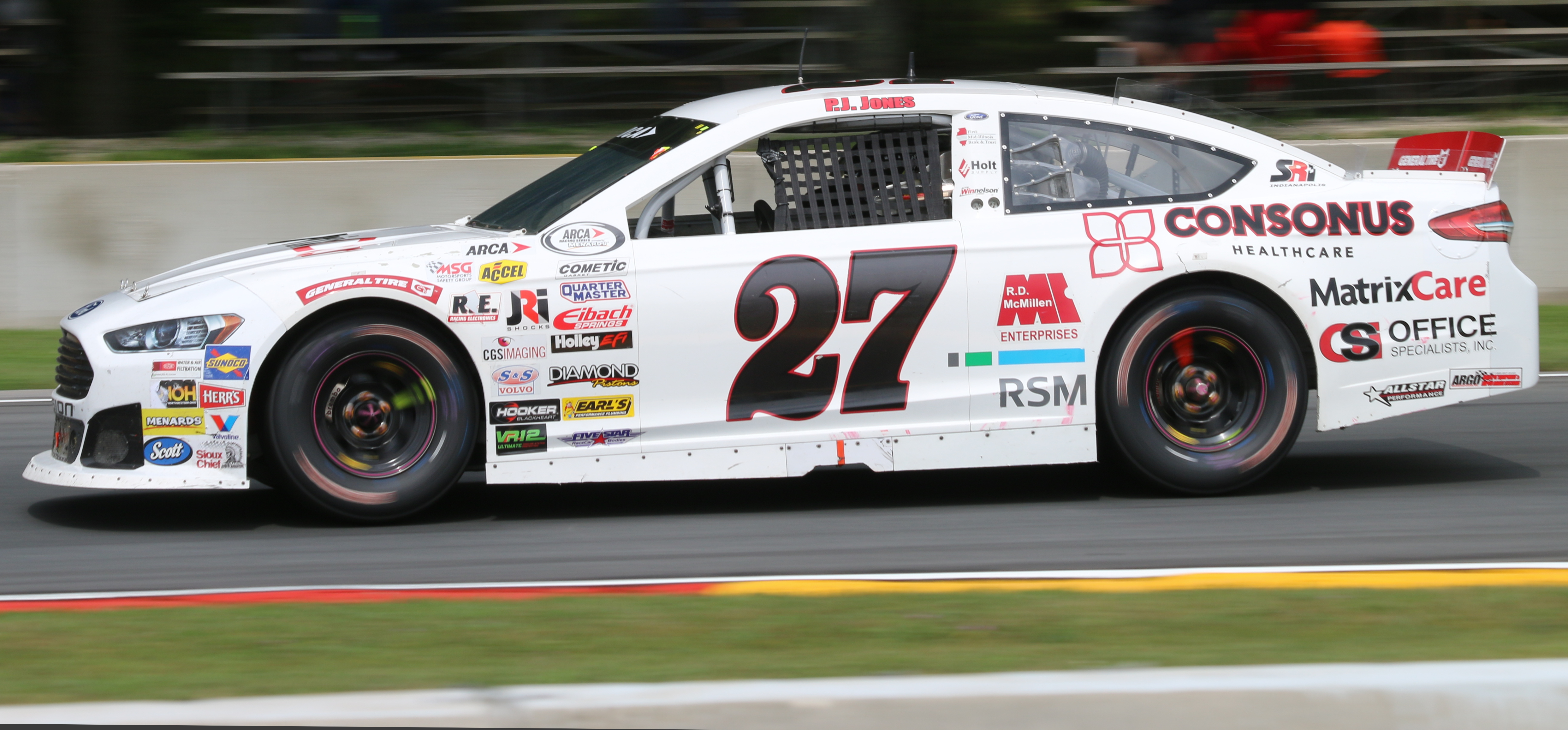 The ARCA Racing Series car of P. J. Jones at the 2017 Road America 100 race.